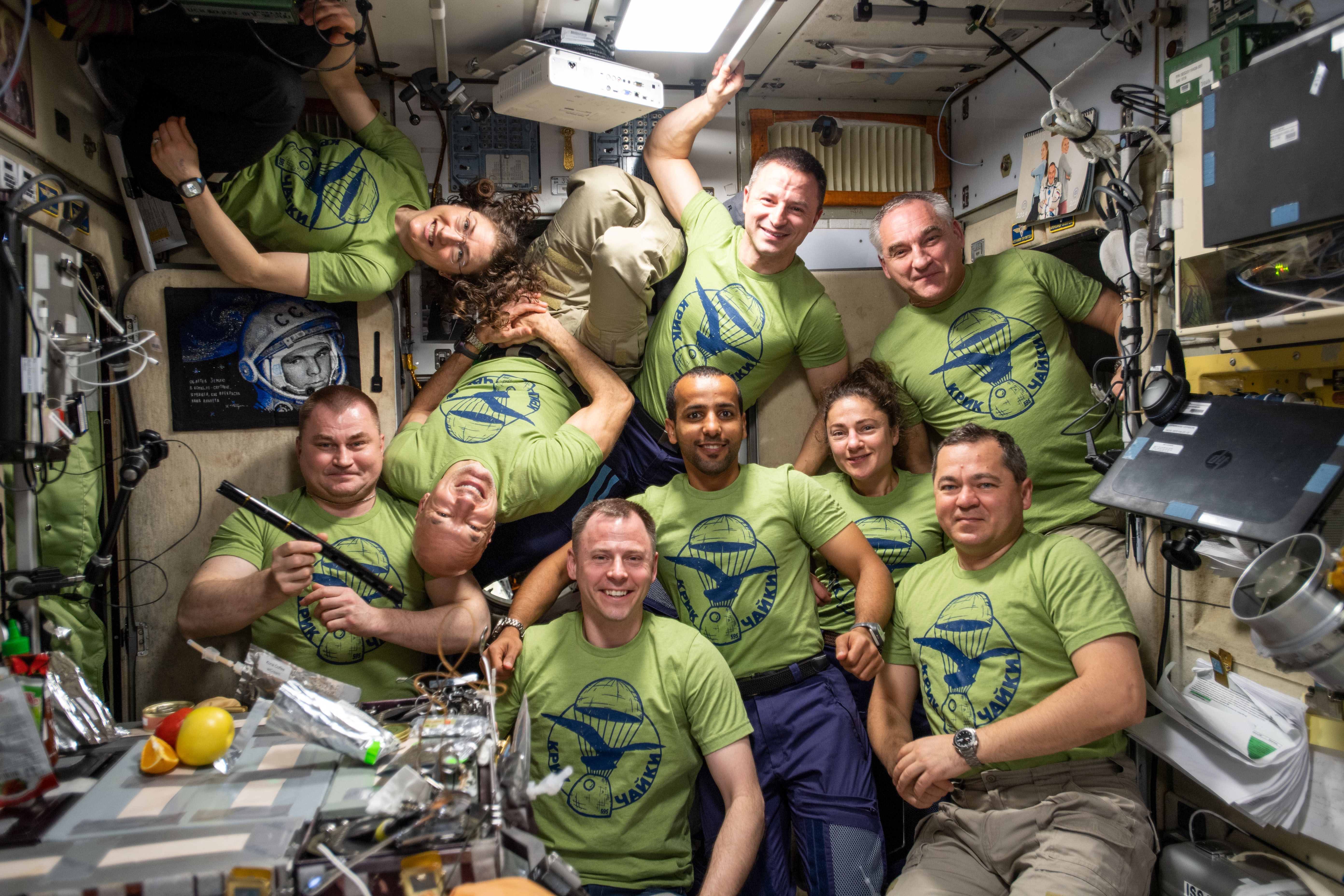 (Sept. 26, 2019) --- The nine International Space Station residents pose for a portrait inside the Zvezda service module. At the bottom row from left are, station cosmonaut Alexey Ovchinin, astronauts Luca Parmitano and Nick Hague, visiting astronaut Hazzaa Ali Almansoori of the United Arab Emirates, astronaut Jessica Meir and cosmonaut Oleg Skripochka. At the top are, astronauts Christina Koch and Andrew Morgan with cosmonaut Alexander Skvortsov.